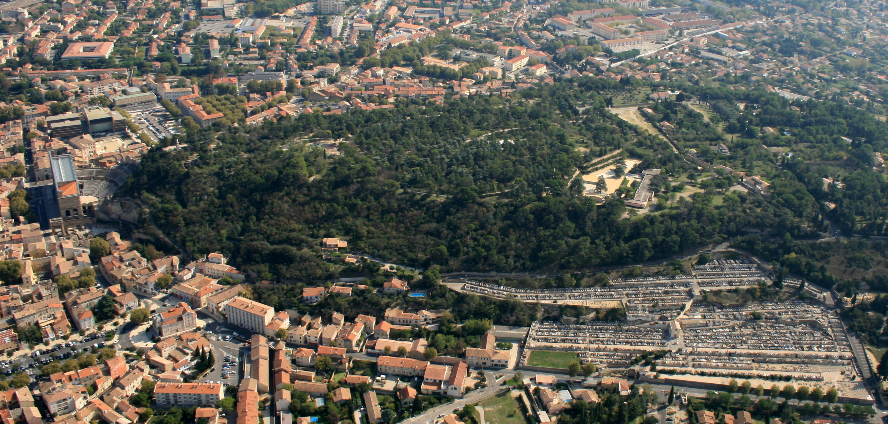 Colline Saint Eutrope seen bu plan from west side.